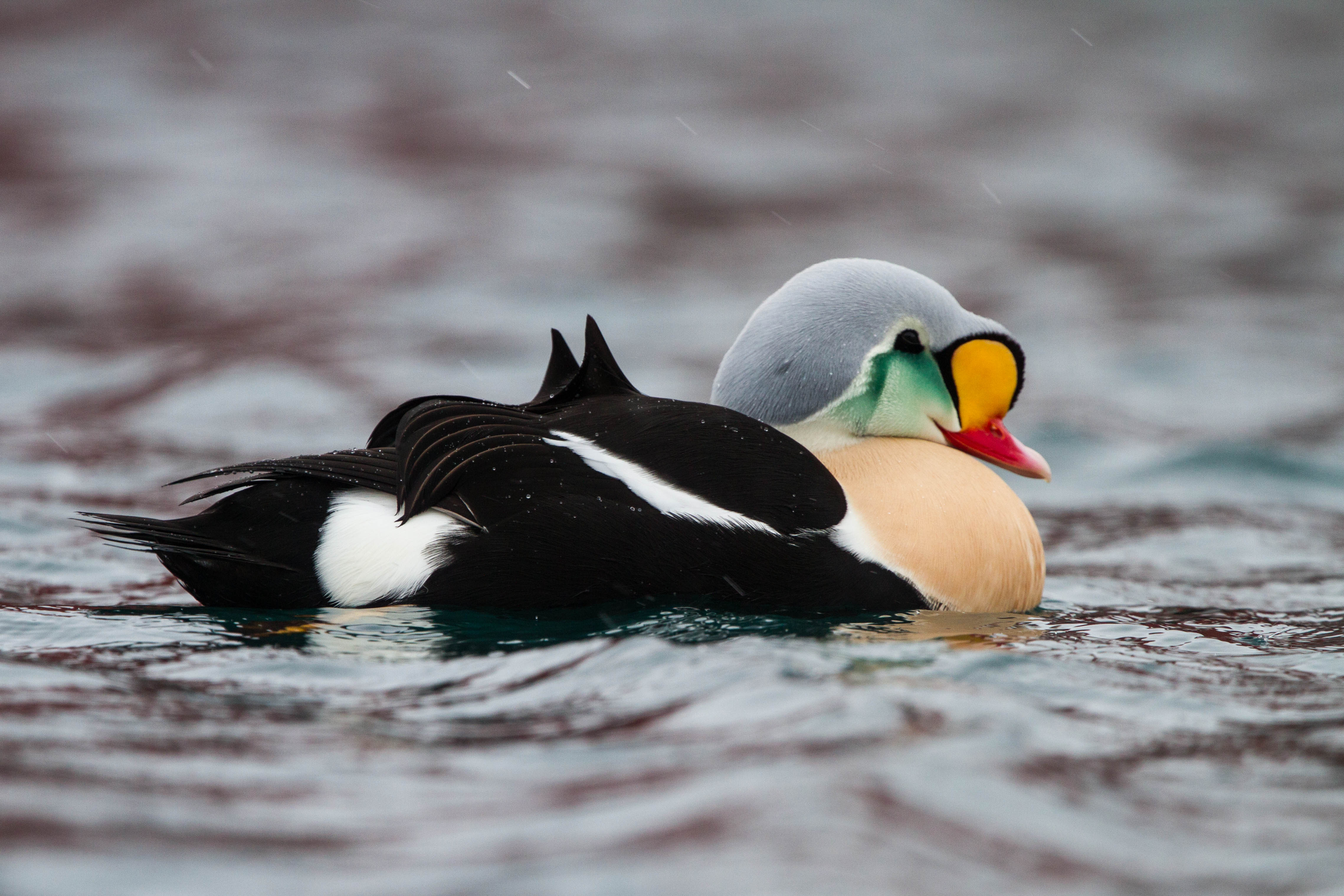 King Eider Somateria spectabilis, northern Norway